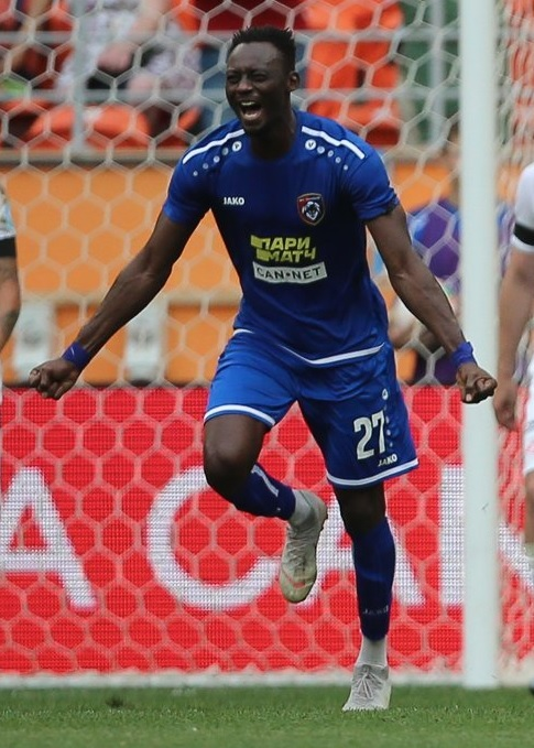 Cédric Gogoua with FC Tambov in a game against FC Spartak Moscow.